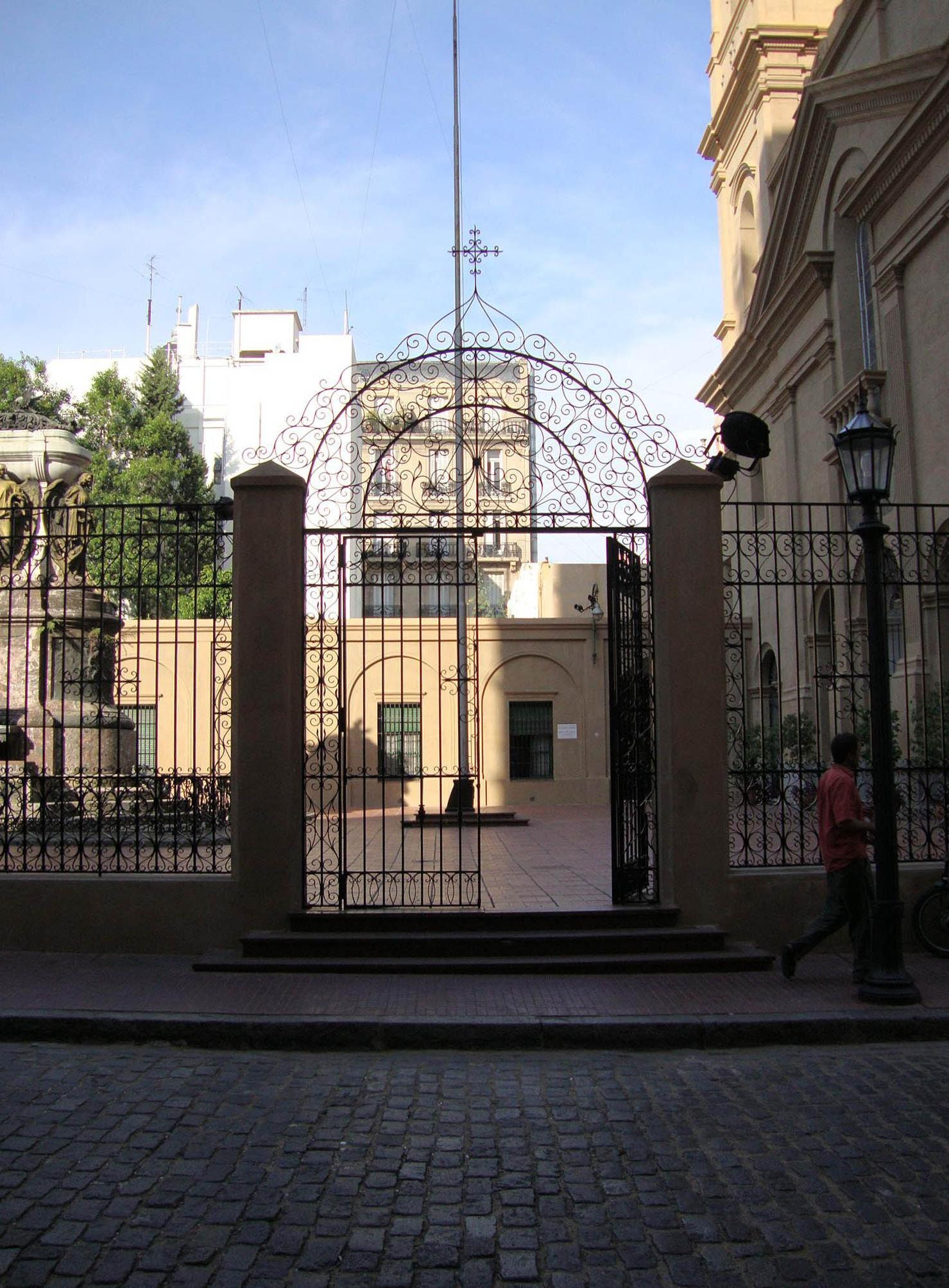 Artistic grille of the atrium of the Convento de Santo Domingo. Its church construction began in 1751, but it wasn't fully concluded until 1849. However, it was consecrated to the Virgin of the Rosary in 1783. Seen from Defensa street. Buenos Aires, Argentina.